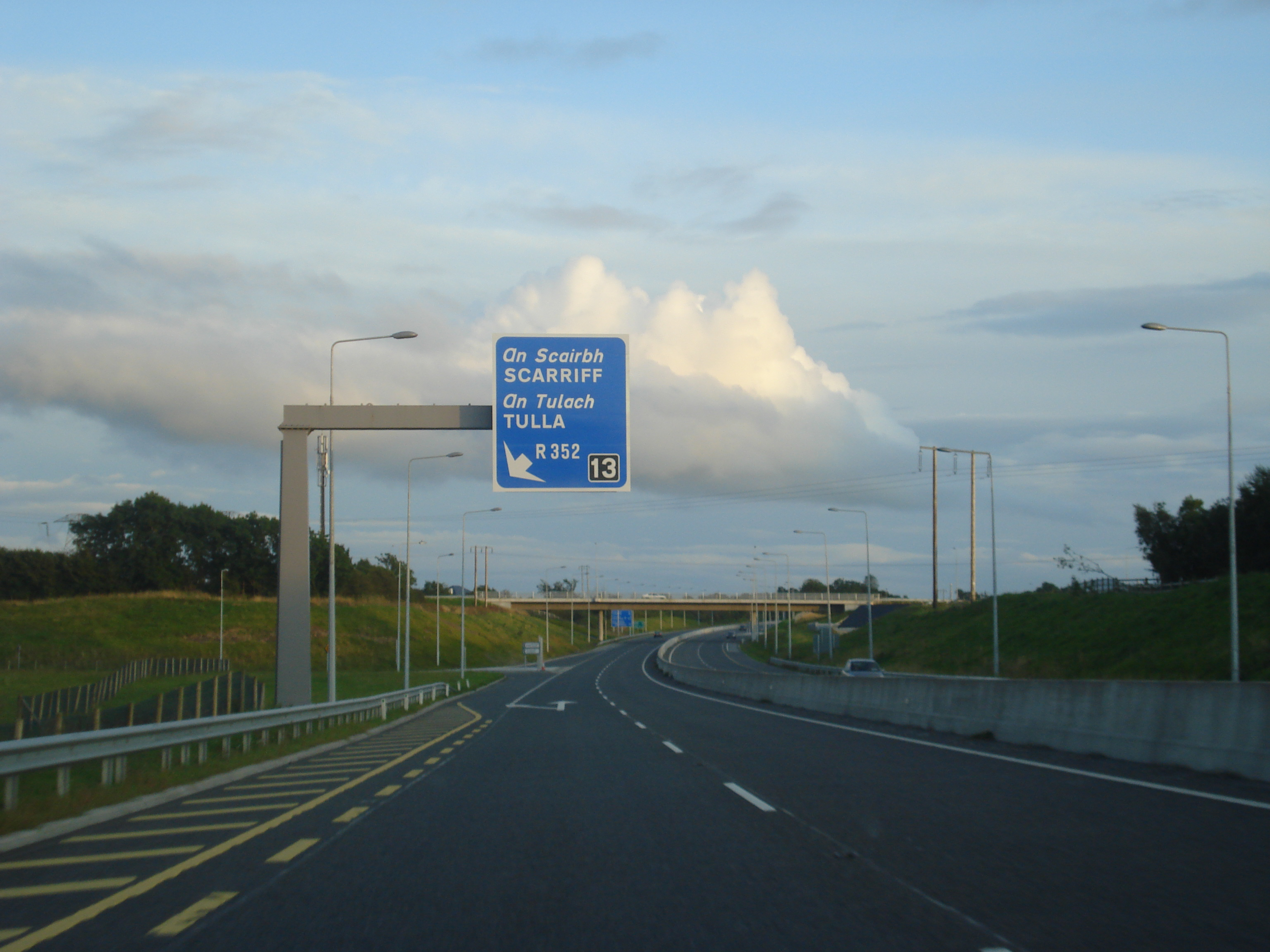 M18 motorway Ireland